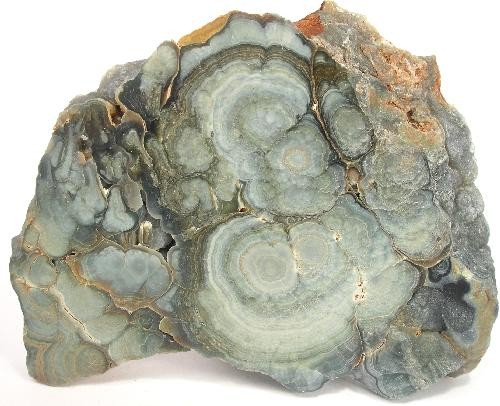 Scorodite Locality: Djebel Debar, Hamman, Meskhootine, Constantine Province, Algeria (Locality at ) Size: 7.7 x 6.2 x 1 cm. An unusual and very attractive stalactitic growth of the arsenate, Scorodite. This slab shows the beautiful blue-green banding of the Scorodite, very similar to what you see in classic cut Malachite. The largest of the botryoids is an impressive 3.5 cm across. Ex. Charlie Key.